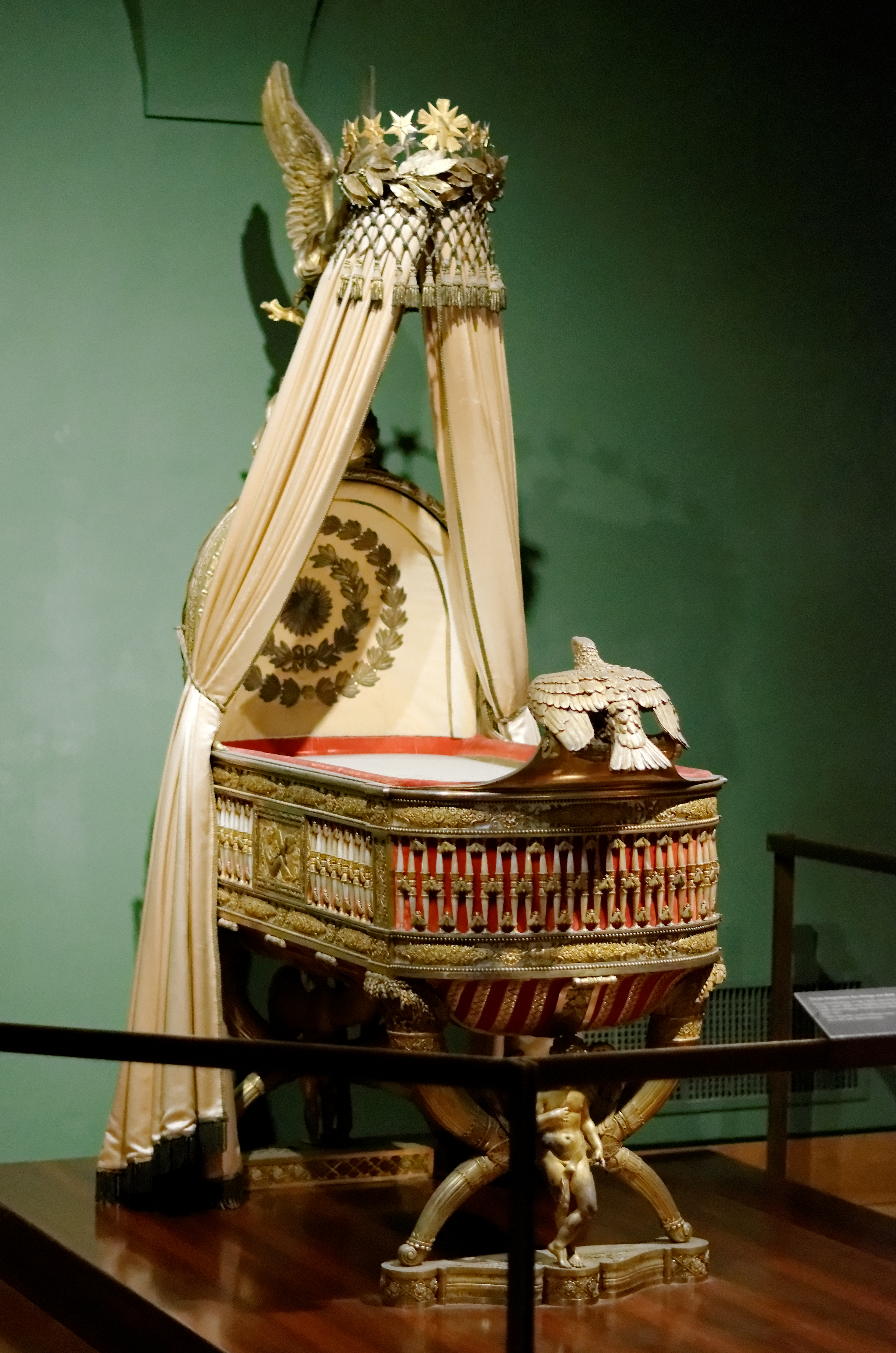 The cradle of the King of Rome (later known as Napoleon II)